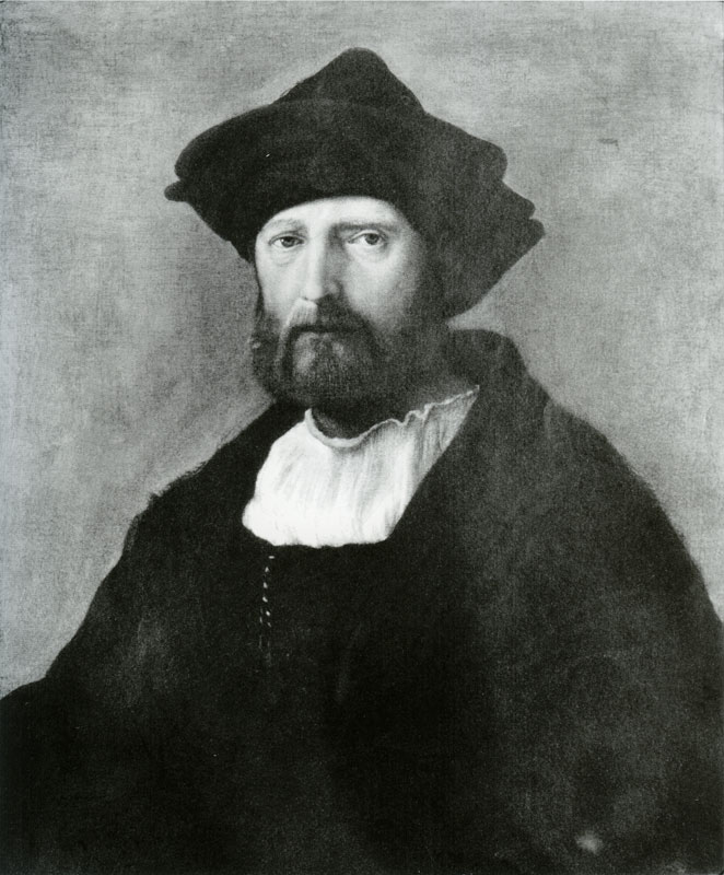 Painter: Raphael Sanzio Portrait of Antonio Tebaldeo 1515 84 x 64 cm Present whereabouts unknown